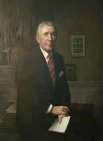 Portrait of Donald Regan by Herbert E. Abrams: United States Secretary of the Treasury from 1981 to 1985.